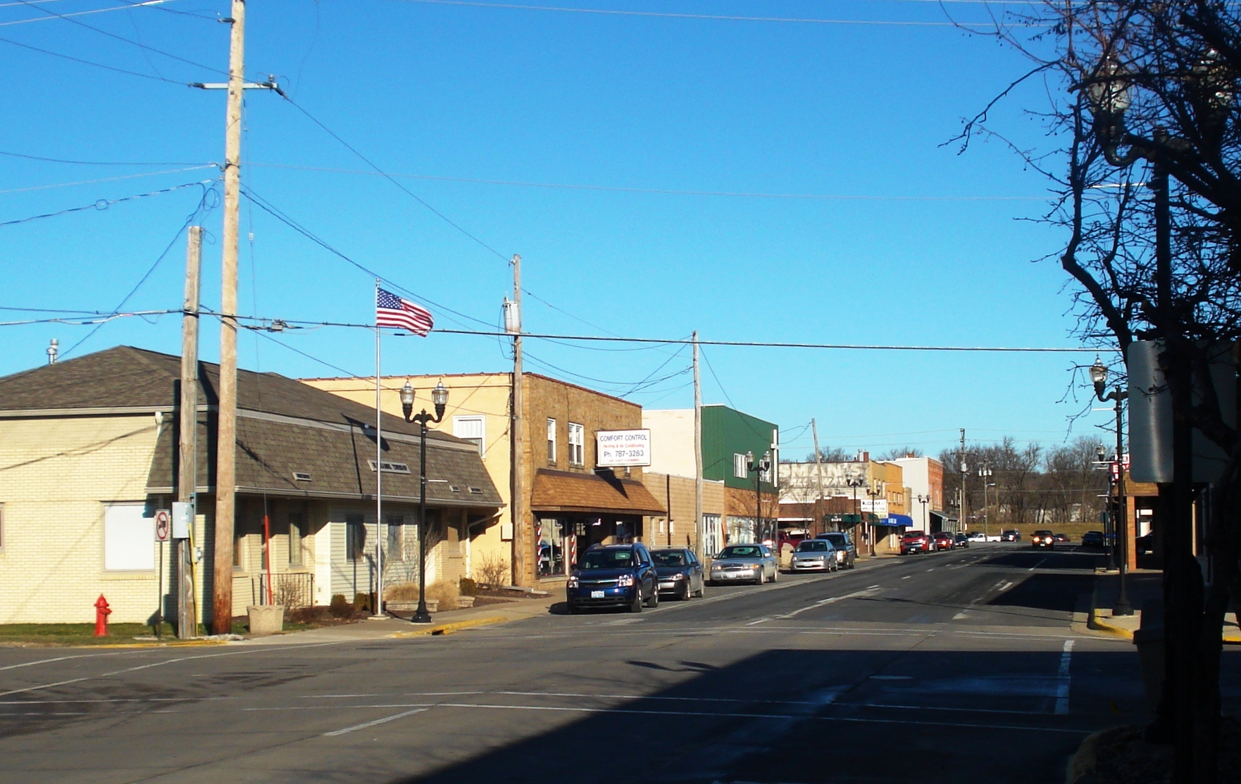 west side of 4th Street West, looking north from West 3rd Avenue, Milan, Illinois; at left, Blackhawk Township Hall, 230-234 4th Street West